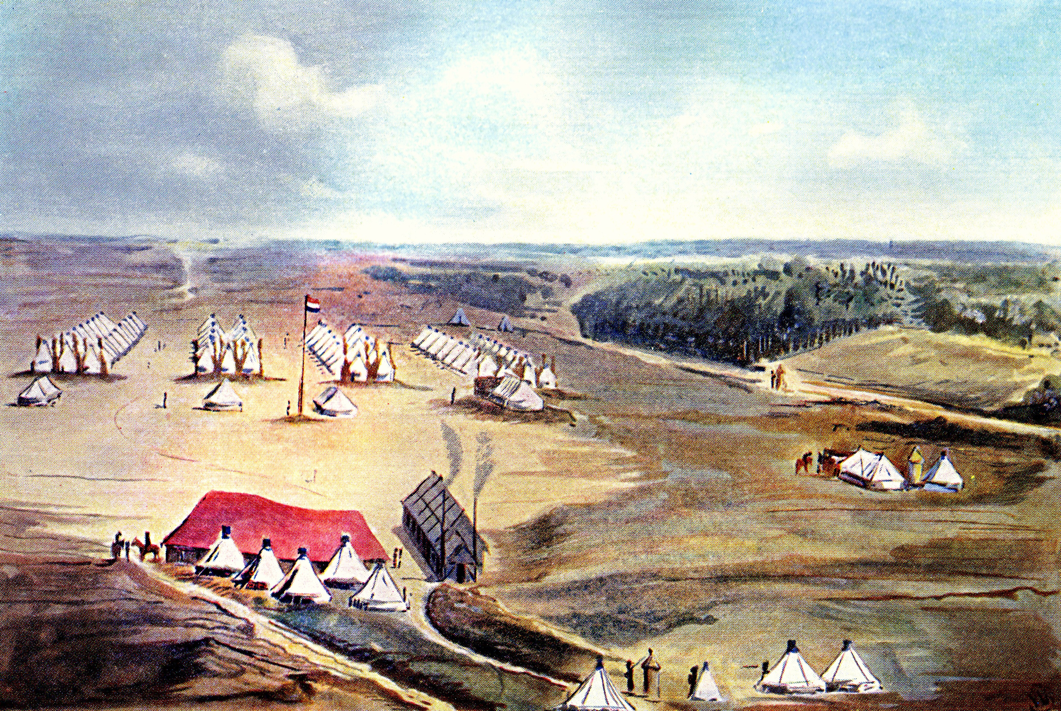 Tentenkamp kma